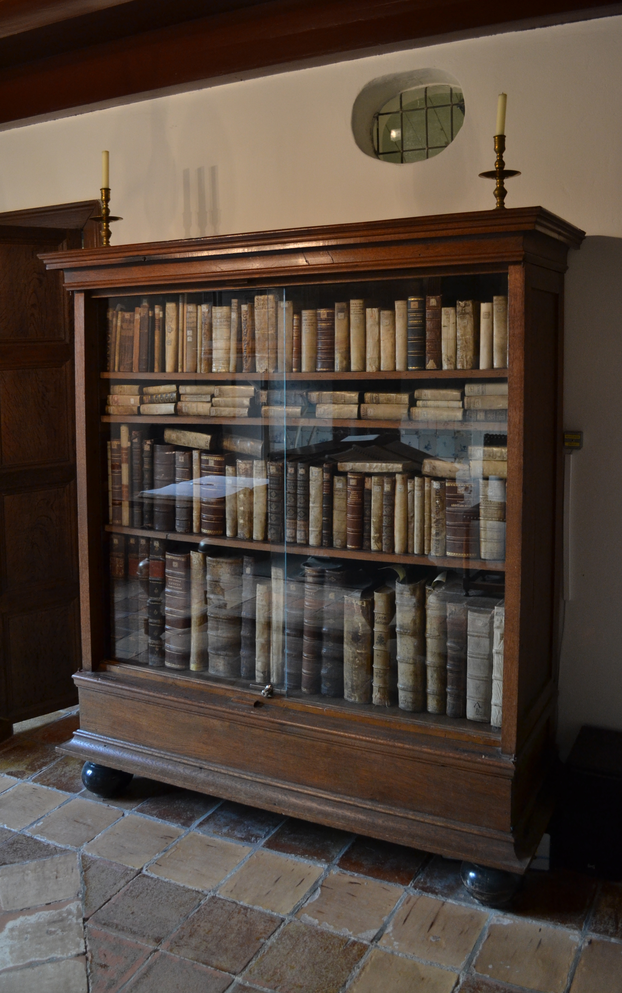 The reconstruced bookcase in the Spinozahuis in Rijnsburg, where Baruch Spinoza lived in 1661-1663.